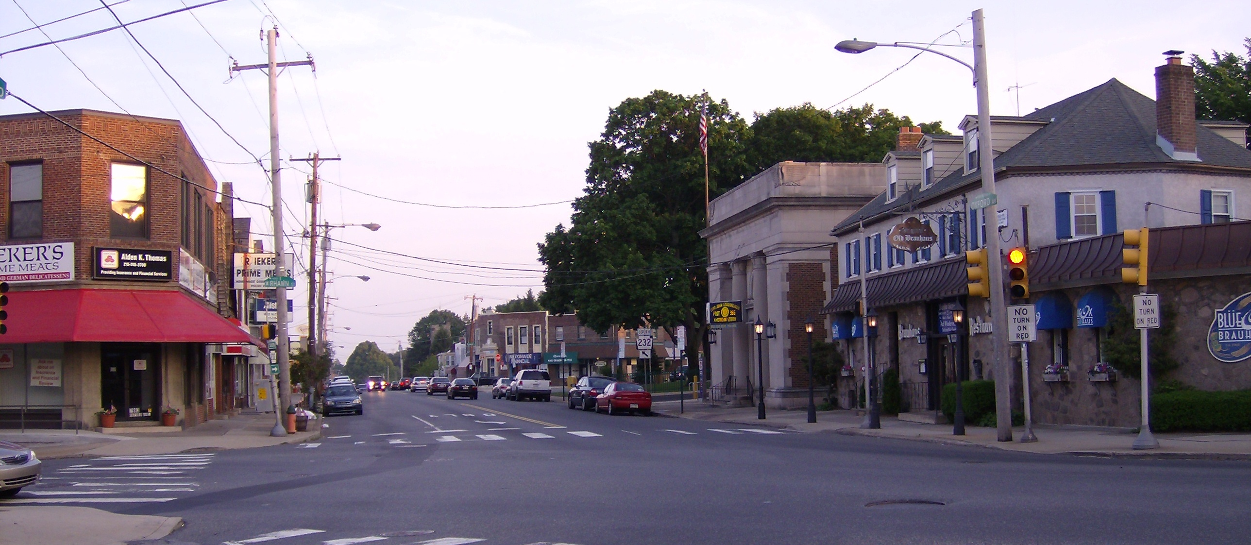 Oxford Avenue and Rhawn Street in Fox Chase, Philadelphia, Pennsylvania, USA.